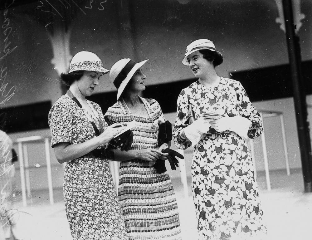 Pauline Tristram, Audrey Forth and Nan Higgins at Ascot Races, Brisbane, November 1933 Audrey Forth was with her cousin Pauline Tristram. Audrey in a smart innovation, striped crepe de chine and a bag to match. Pauline was wearing a floral outfit and white hat. (Description supplied with photograph).